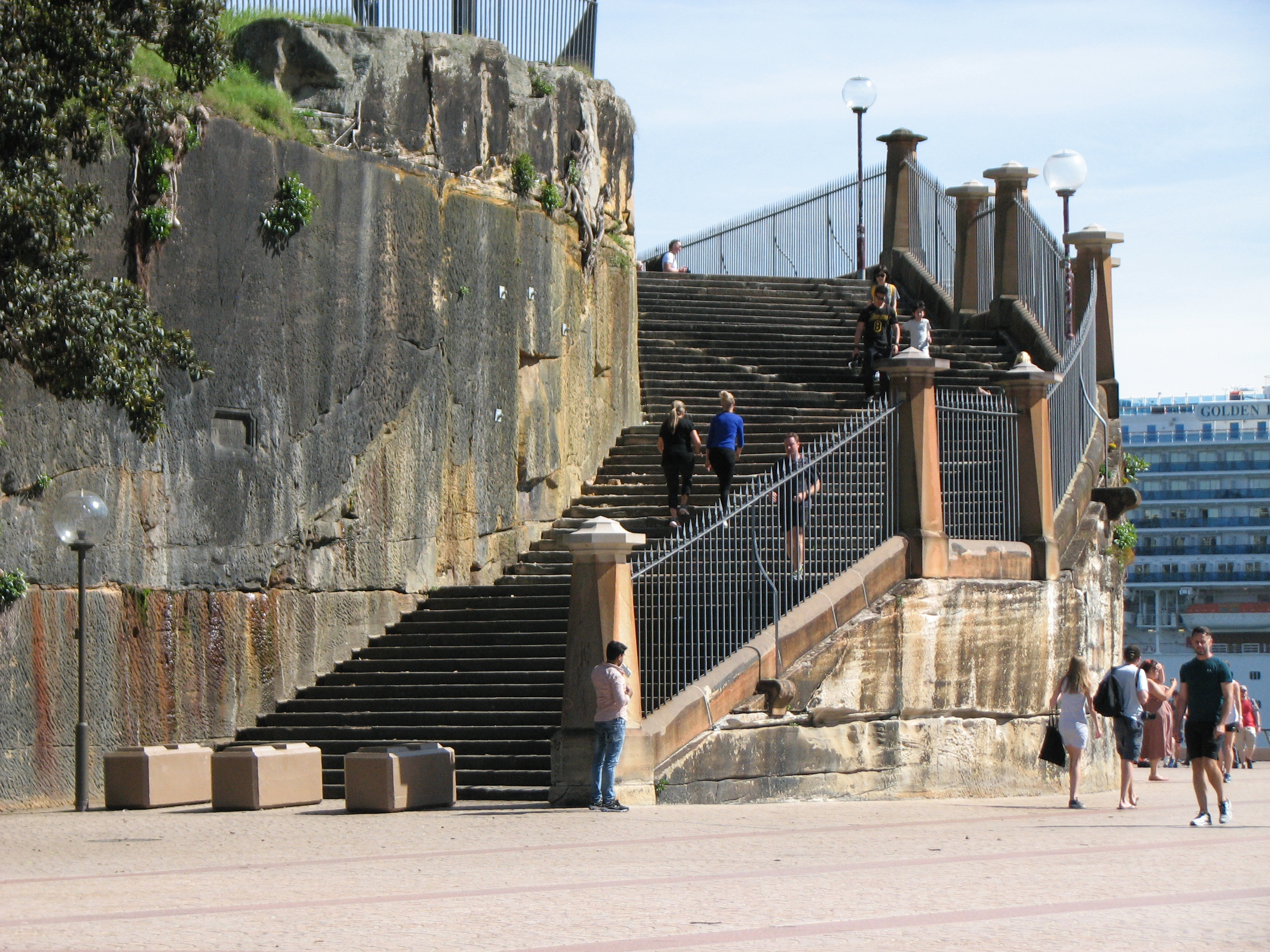 Steps leading up to The Tarpeian Way, adjacent to the Sydney Opera House